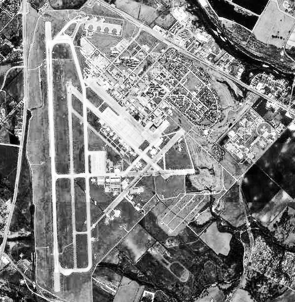 USGS orthophoto of Austin-Bergstrom International Airport, formerly Bergstrom Air Force Base, in Texas, United States